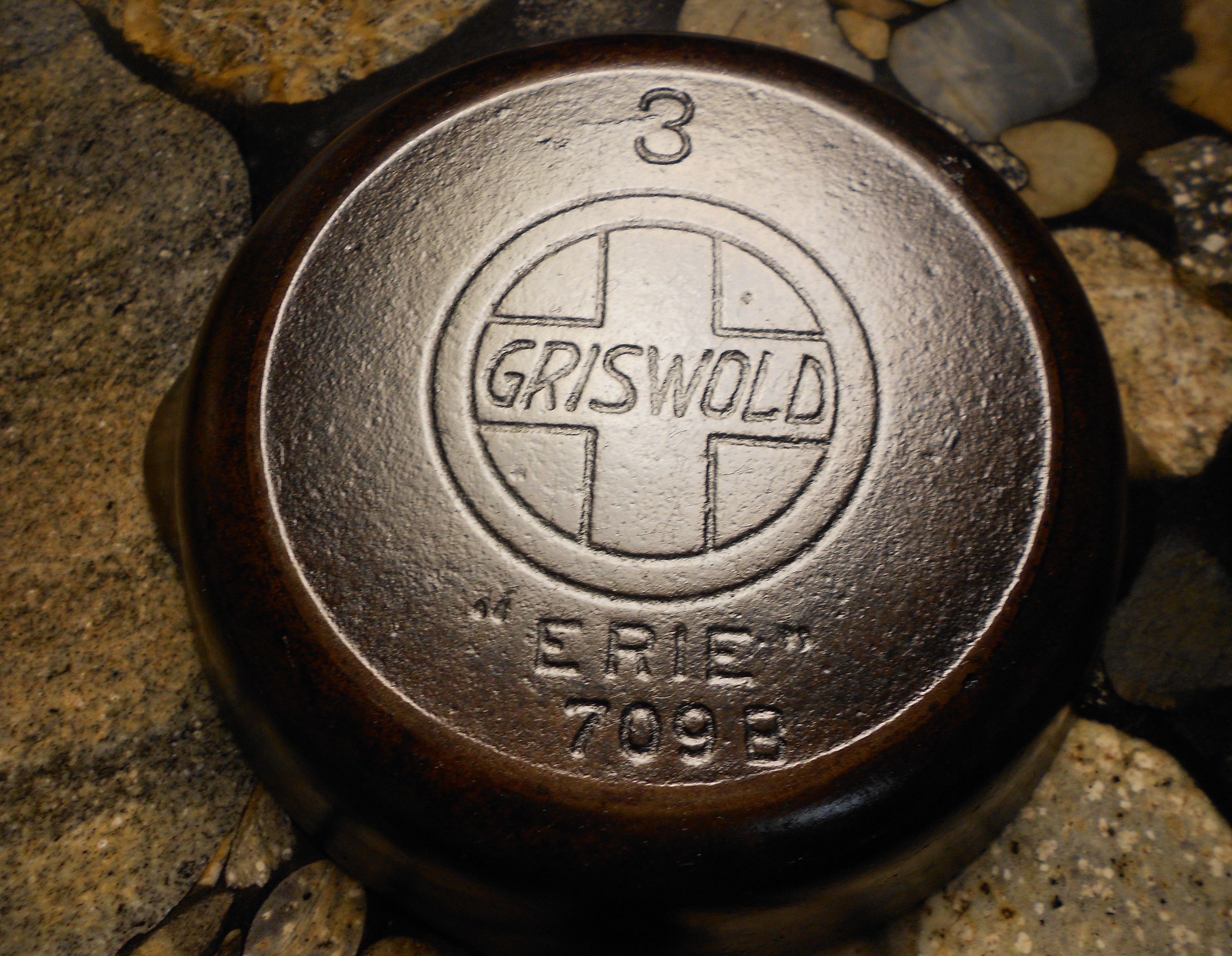 Griswold #3 sized cast iron skillet, displaying the "slant" logo. This skillet was manufactured approximately 1915.